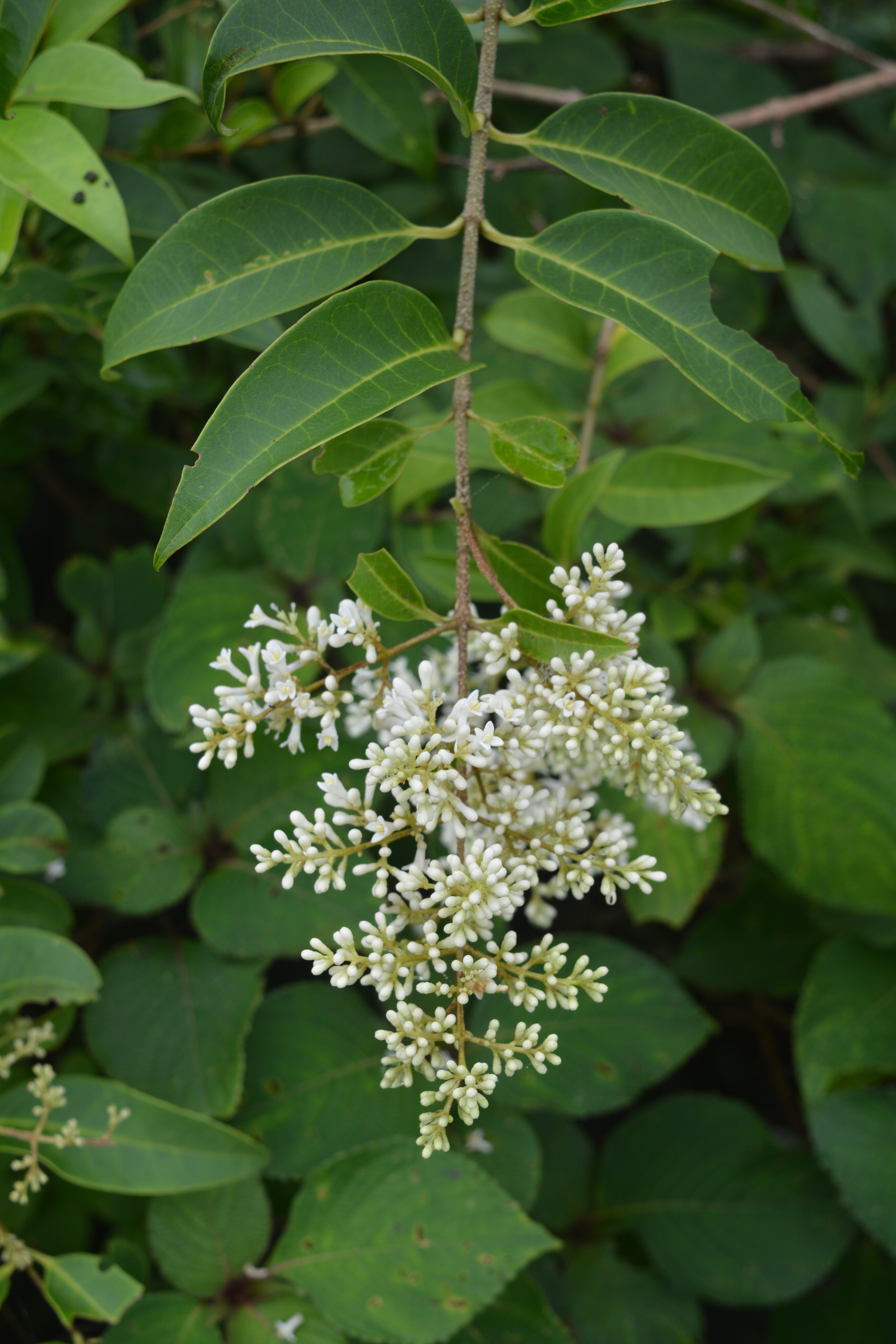 Photos from Paithalmala